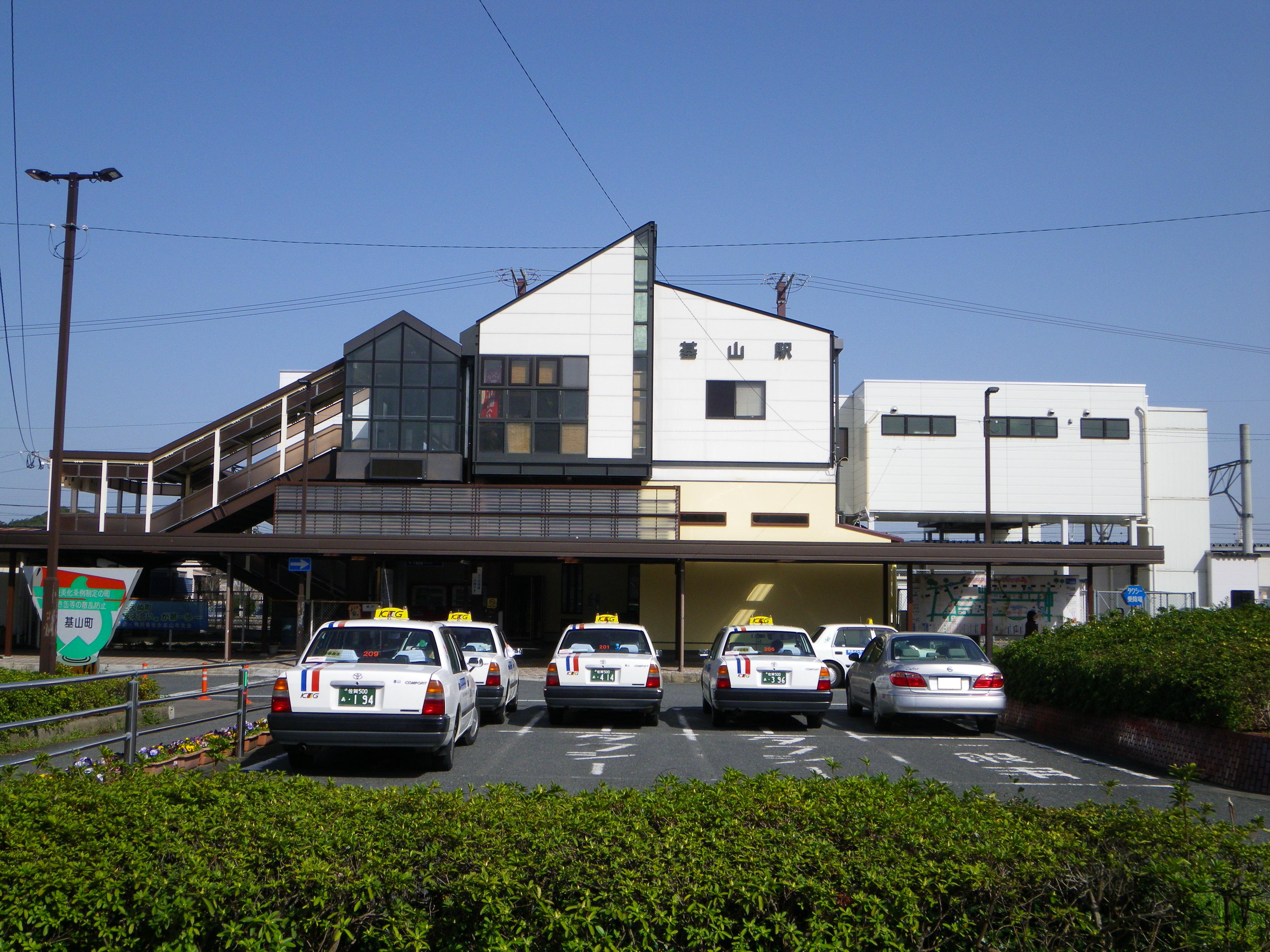 Kiyama Station in Kokura, Kiyama Town, Saga Prefecture, Japan